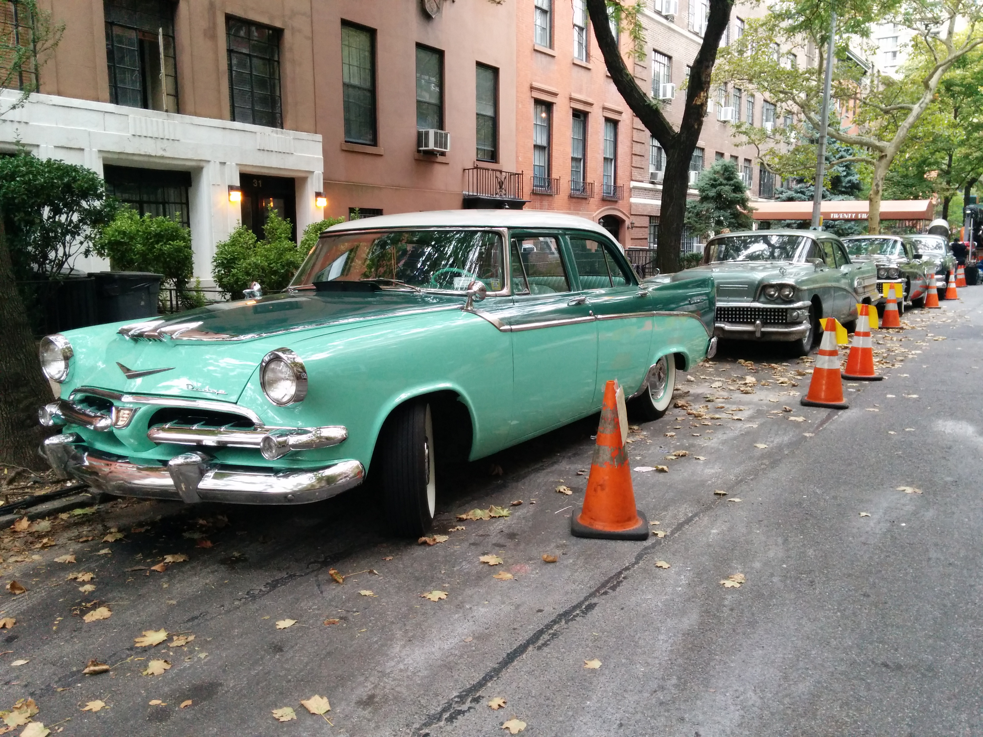 Period vehicles in Brooklyn Heights for the filming of St. James Place